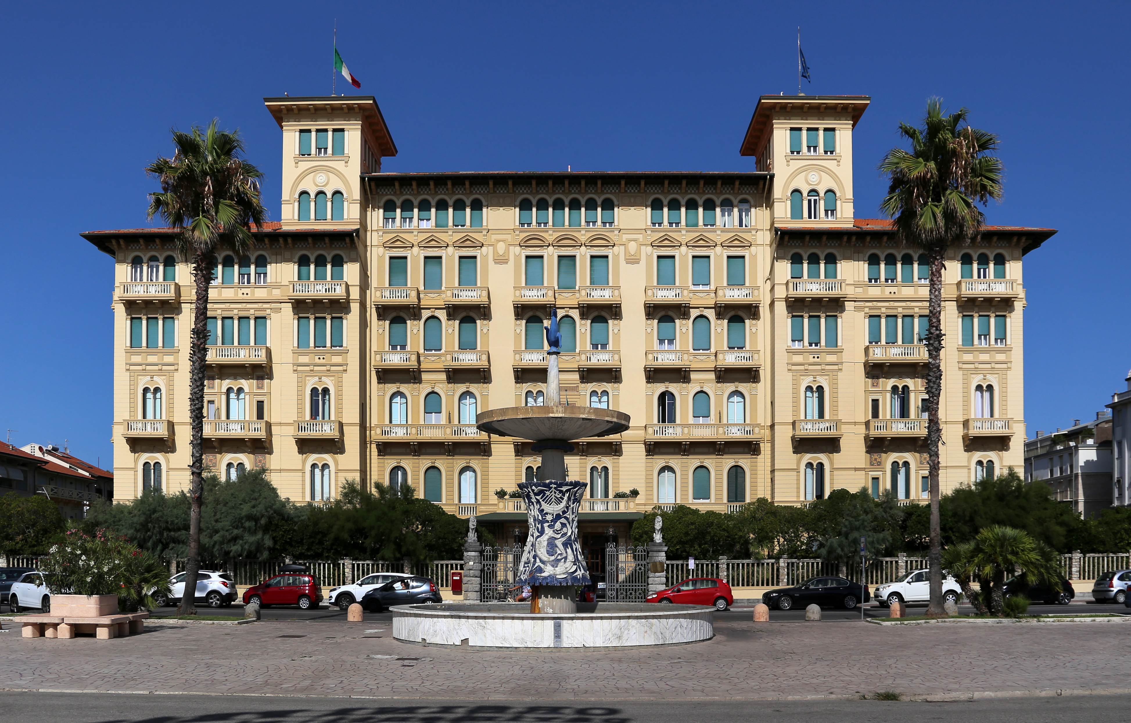 Grand Hotel Royal (Viareggio)